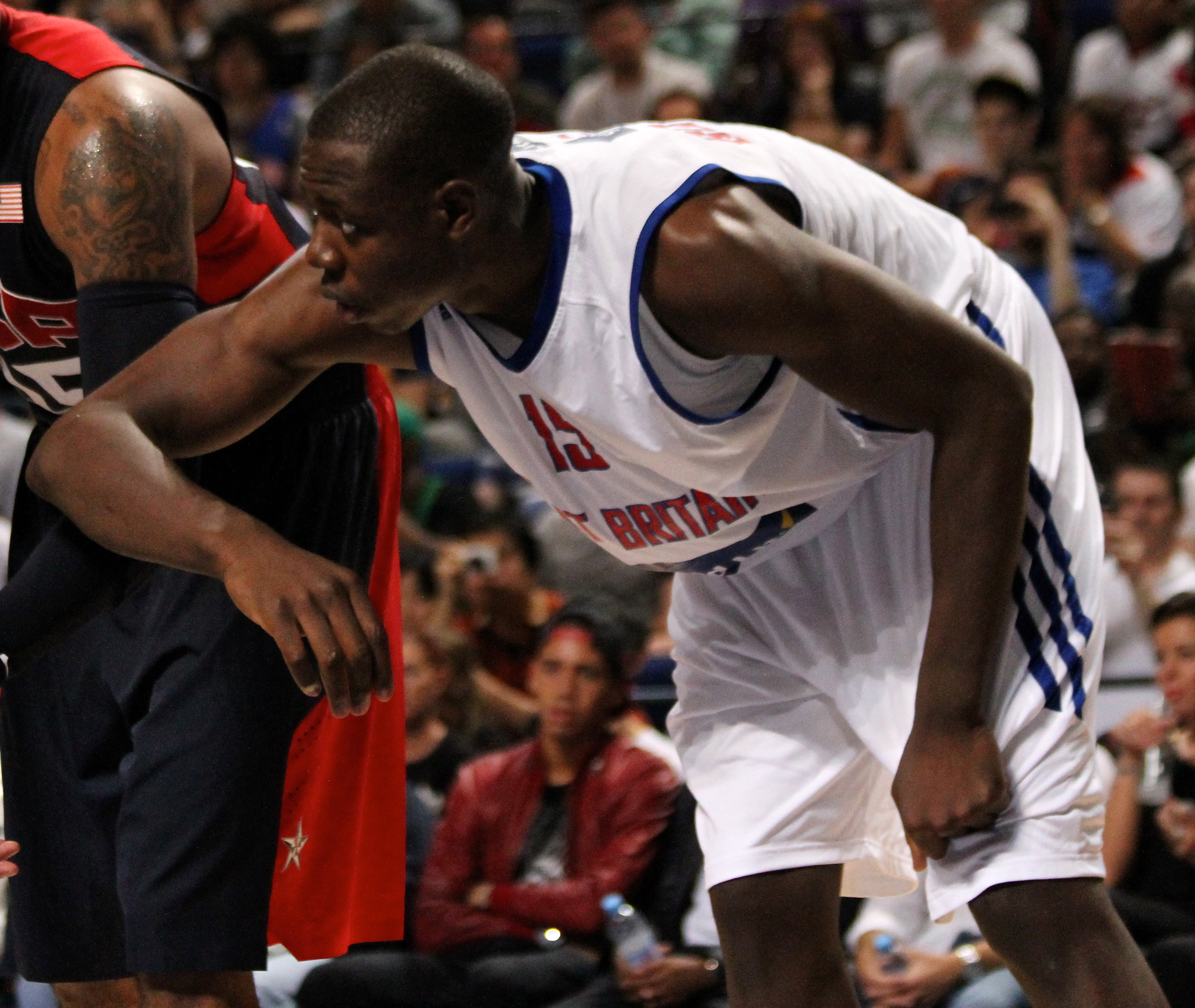 Great Britain's Eric Boateng From Globalite Magazine.